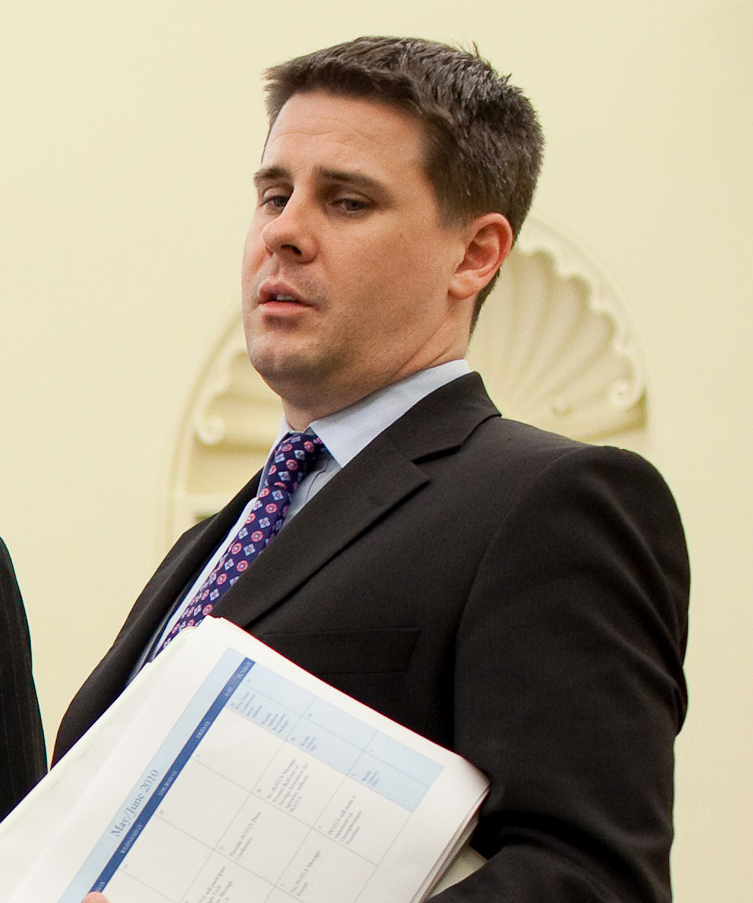 President Barack Obama talks with Senior Advisors Valerie Jarrett, David Axelrod, and Director of Communications Dan Pfeiffer, in the Oval Office, May 21, 2010. (Official White House Photo by Pete Souza)